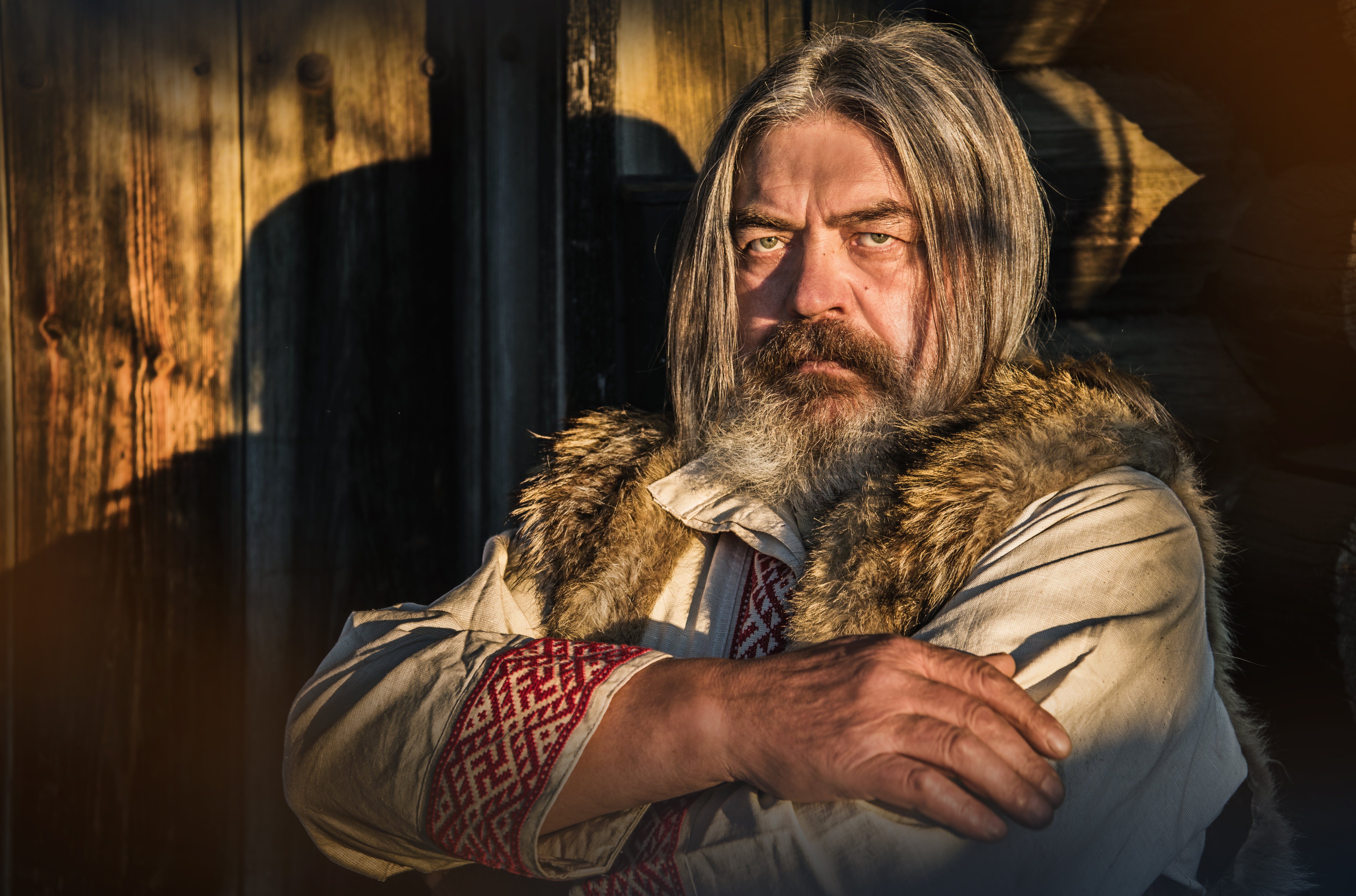 Sergei Trofimovich Alexeev - a modern Russian writer.